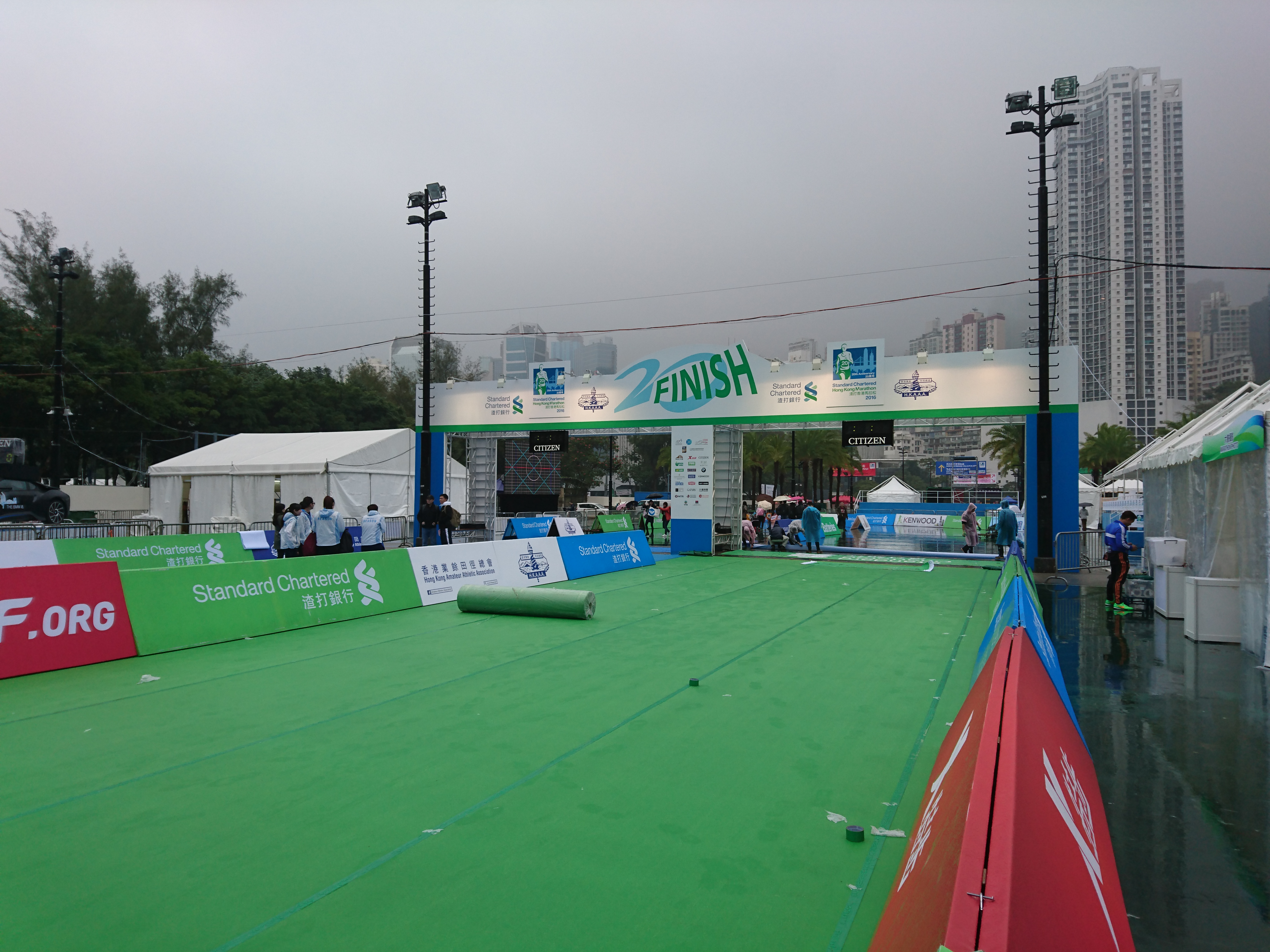 Hong Kong Marathon 2016 Finish Line